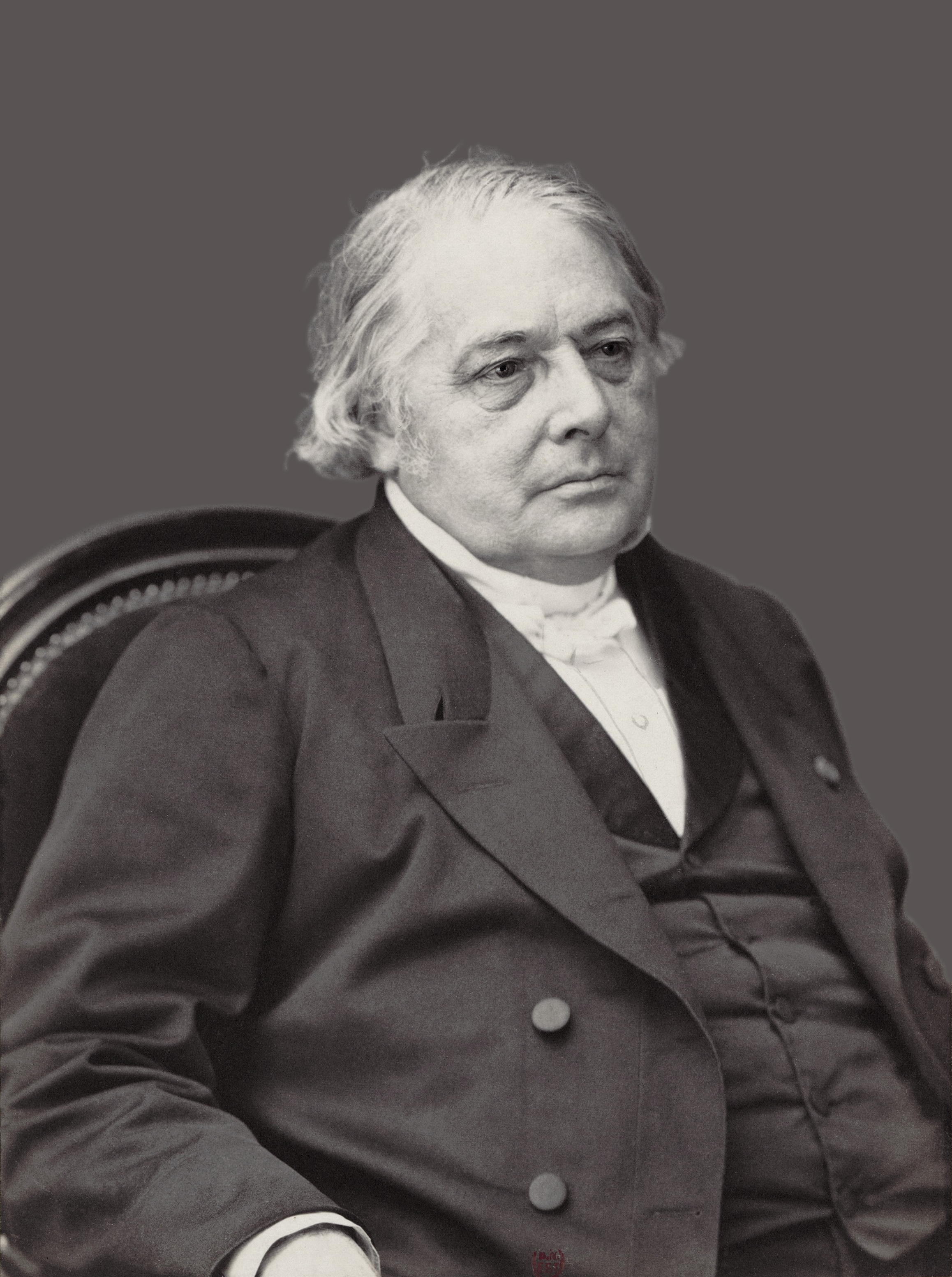 François Jules Devinck, (1802 - 1878), french entrepeneur (chocolatier) and politician of the XIX century.